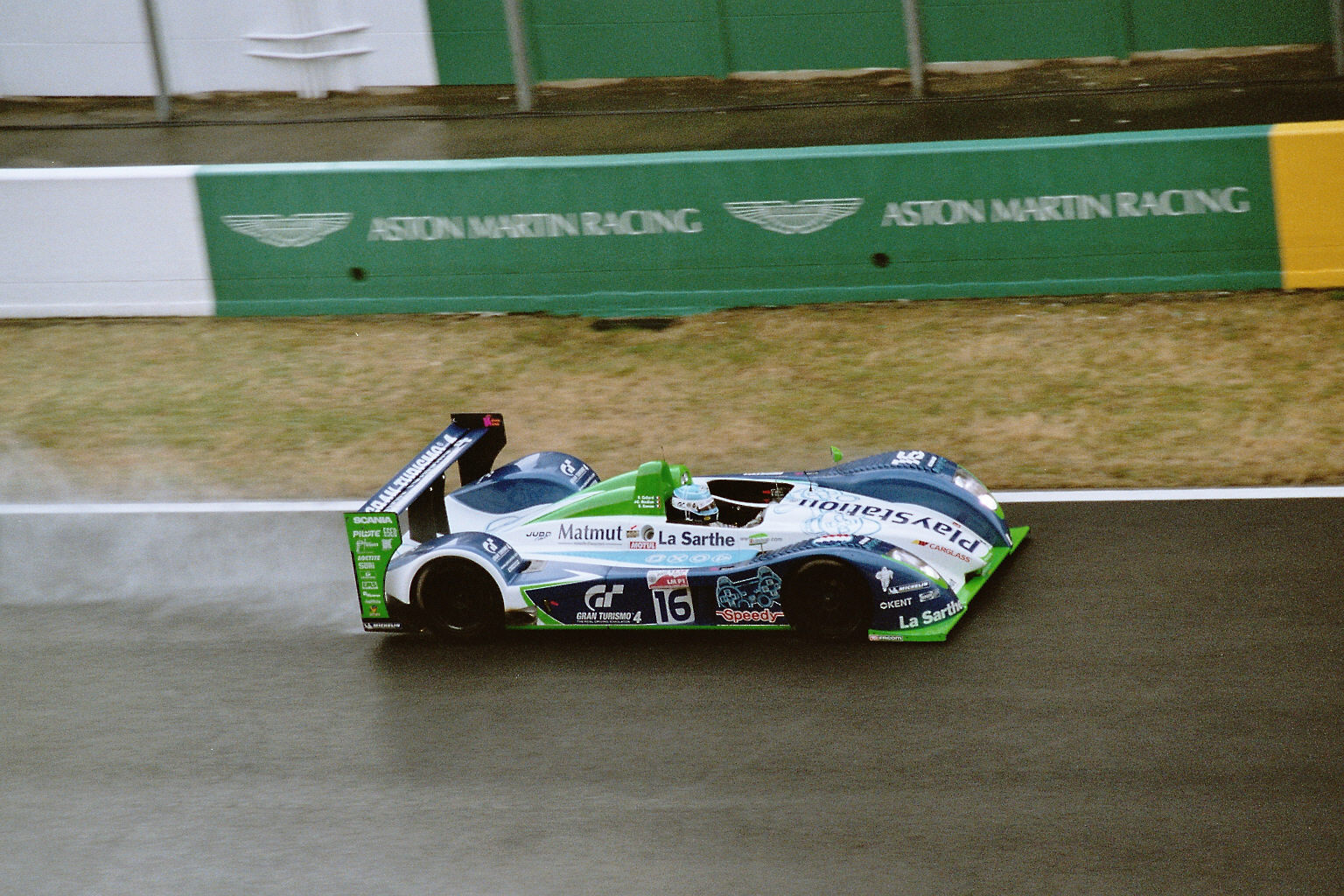 Pescarolo C60, Qualyfing of the 24 hours of le Mans, June 2005